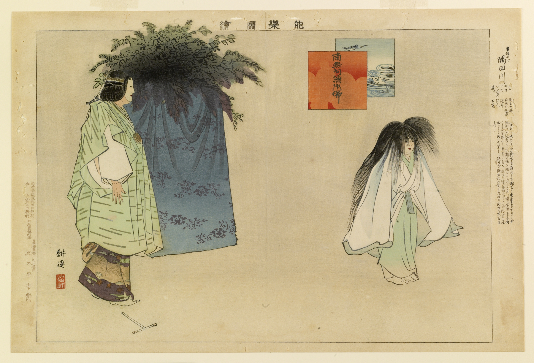 Crazed by grief, a mother searches for her kidnapped child, only to discover that he died a year earlier at the spot beside the Sumida River that she has just reached. Brought to a grassy mound by a willow tree, under which the child was buried, she is asked by the villagers to lead their prayers to Amida Buddha. While they are chanting, the child repeatedly appears before her eyes. Mother: Is it you, my child? Ghost: Is it you, my mother? Chorus: And as she seeks to grasp it by the hand, The shape begins to fade away; The vision fades and reappears And stronger grows her yearning. Day breaks in the eastern sky. The ghost has vanished; What seemed her boy Is but a grassy mound Lost on the wide, desolate moor. Sadness and tender pity fill all hearts, Sadness and tender pity fill all hearts!